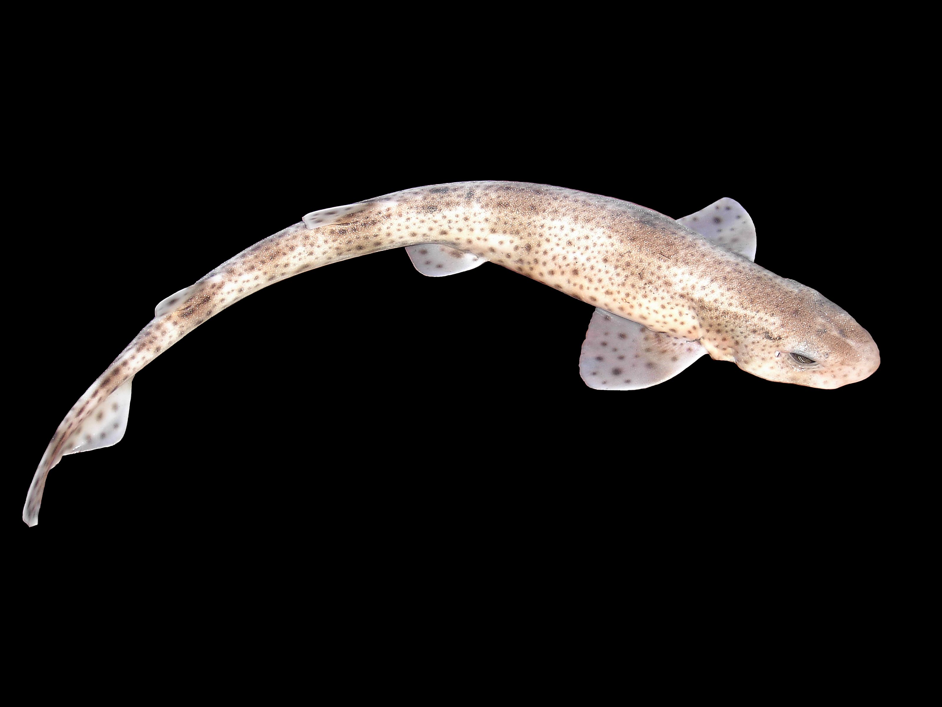 Lesser spotted dogfish from the Southern North Sea.